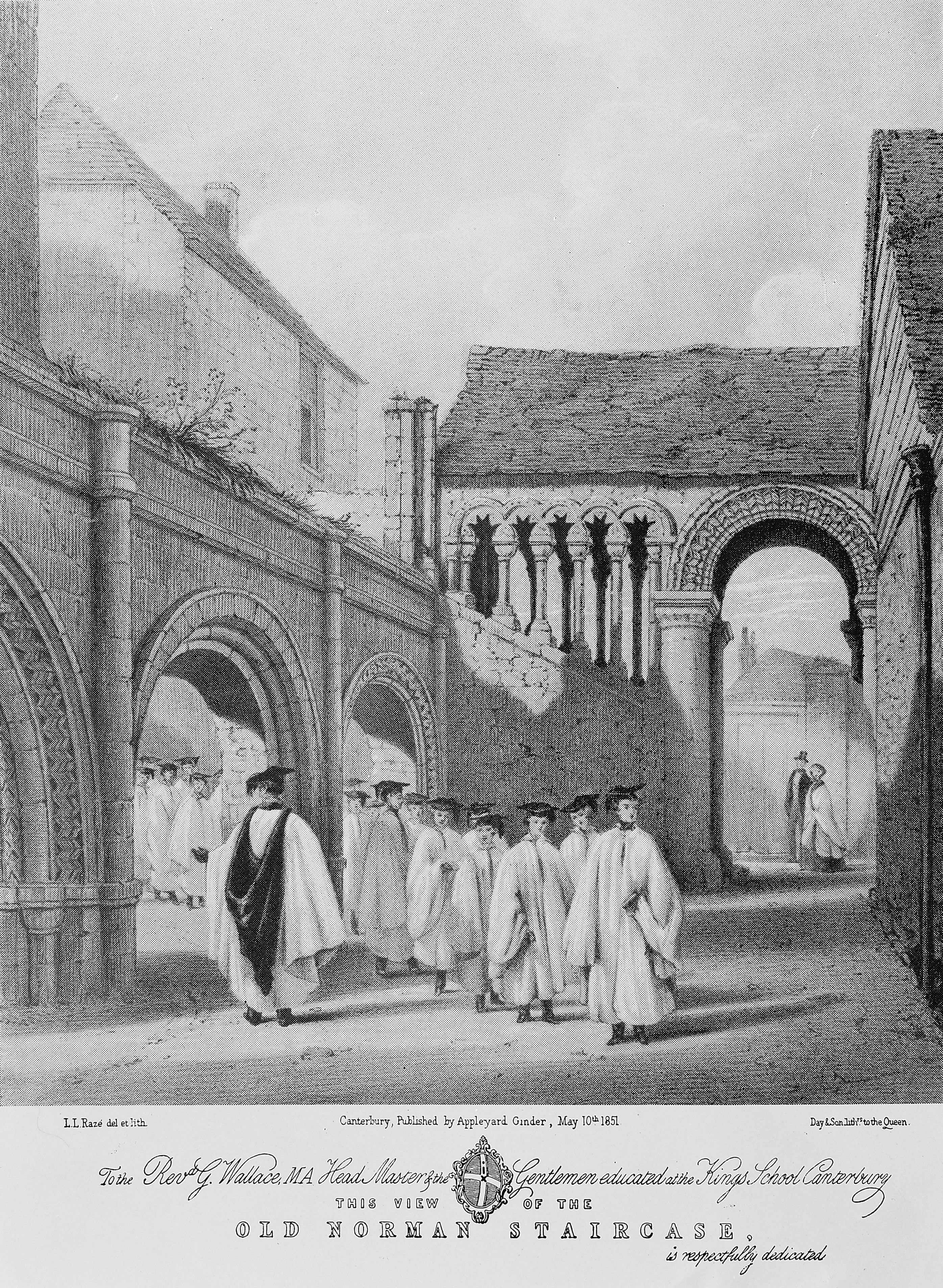 View of the old Norman Staircase - scholar etc, King's School Canterbury where W. Harvey was a pupil. Lithograph published in 1851. Wellcome Images Keywords: L.L. Raze; William Harvey